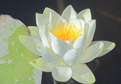 European white waterlily. Location: municipality Hå in the county of Rogaland, Norway